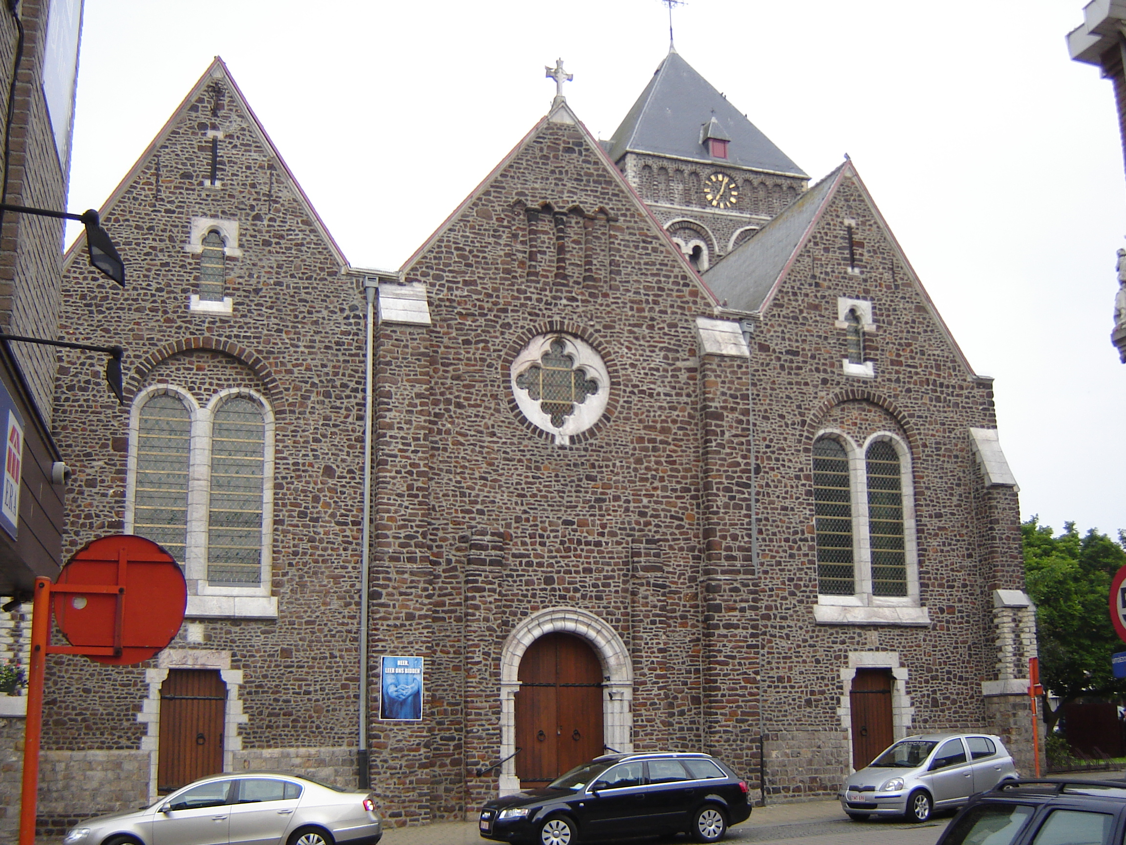 Church of Saint Dionysus in Geluwe, Wervik, West-Flanders, Belgium